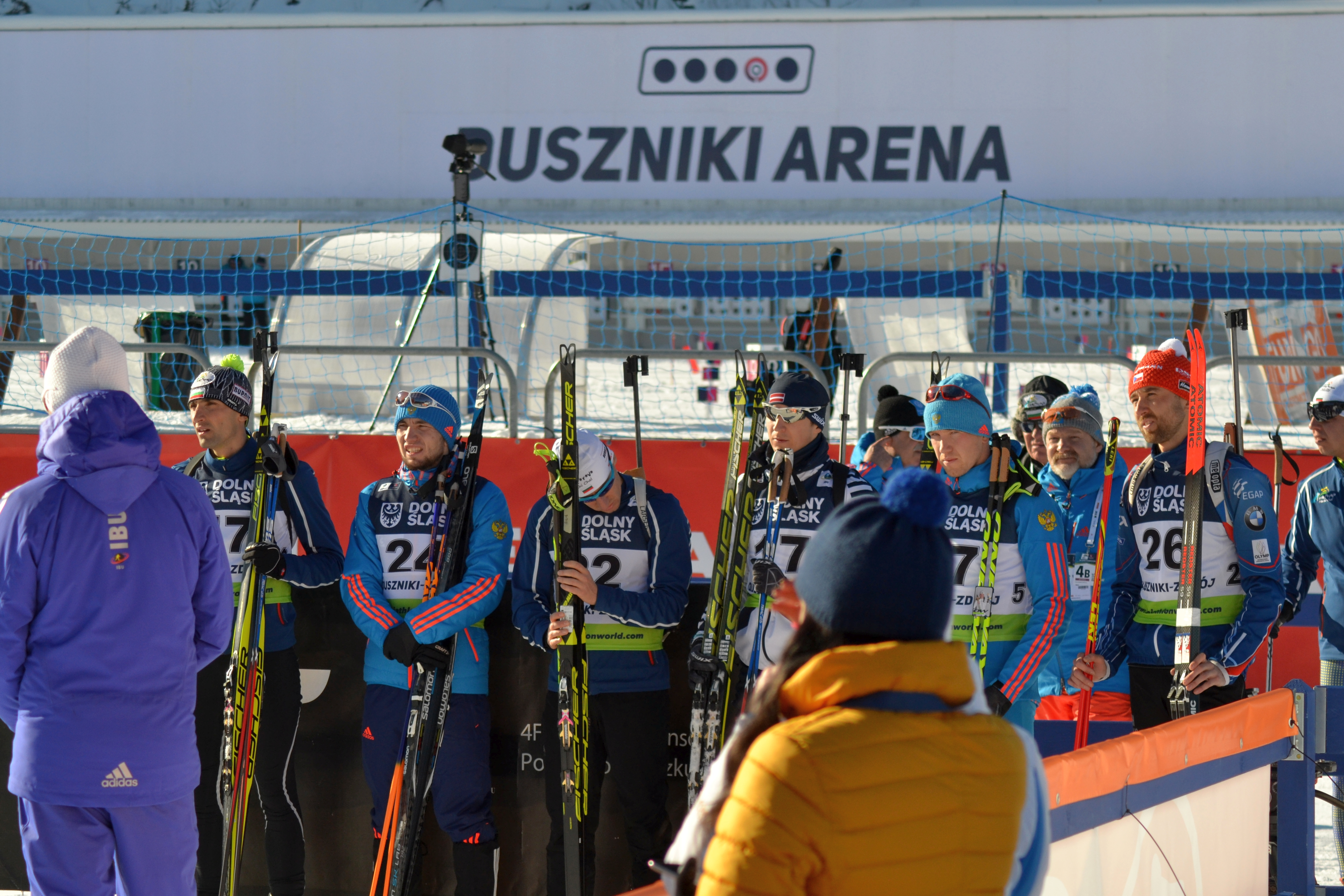 Open European Championships Biathlon 2017, Sprint Mens race.